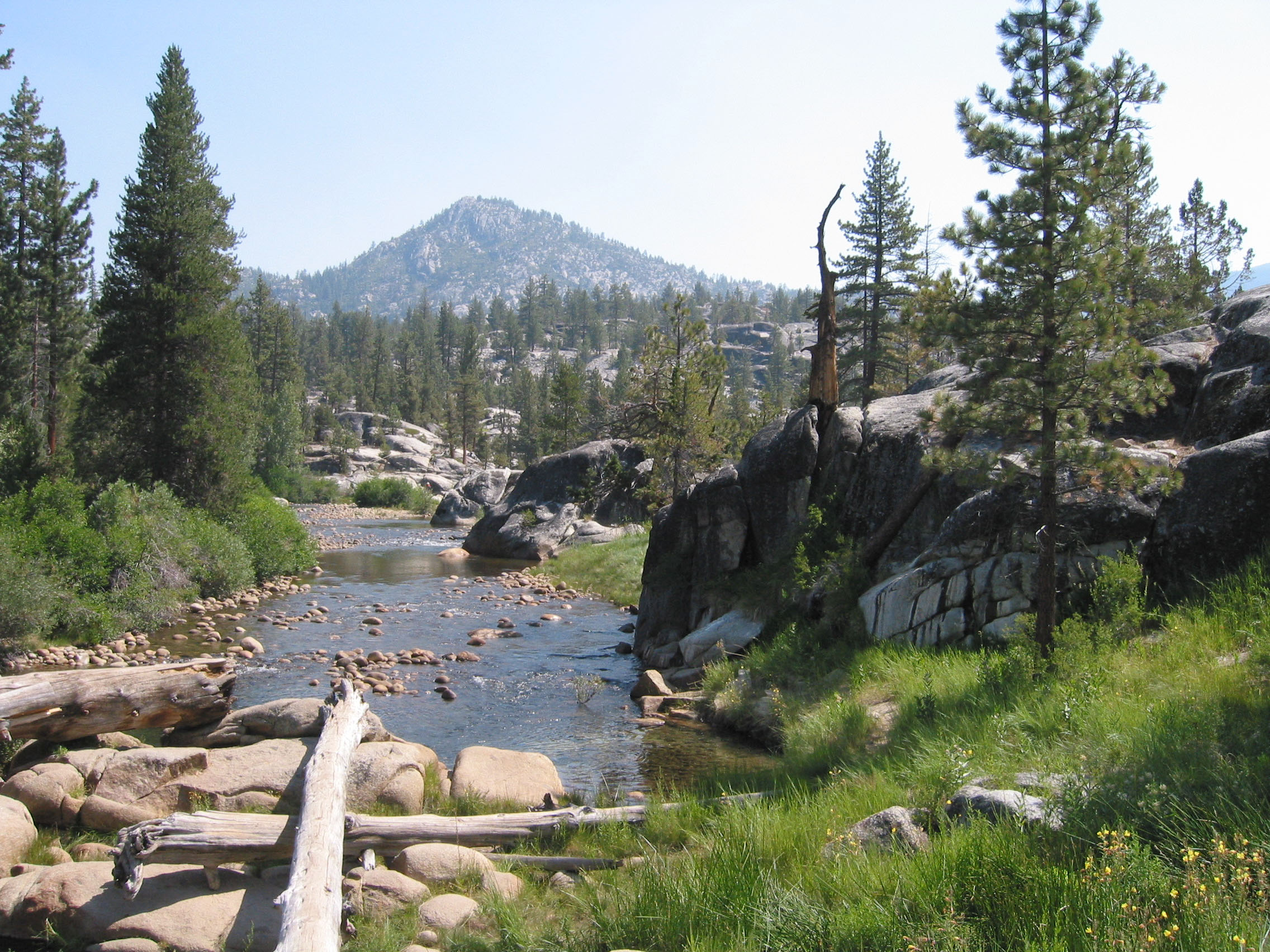 Mono Creek at Mono Hot Springs, within the Sierra National Forest in the central Sierra Nevada, Fresno County, California. Mono Creek is a tributary of the South Fork of the San Joaquin River. Trees are Pinus contorta subsp. murrayana (Sierra lodgepole pine).